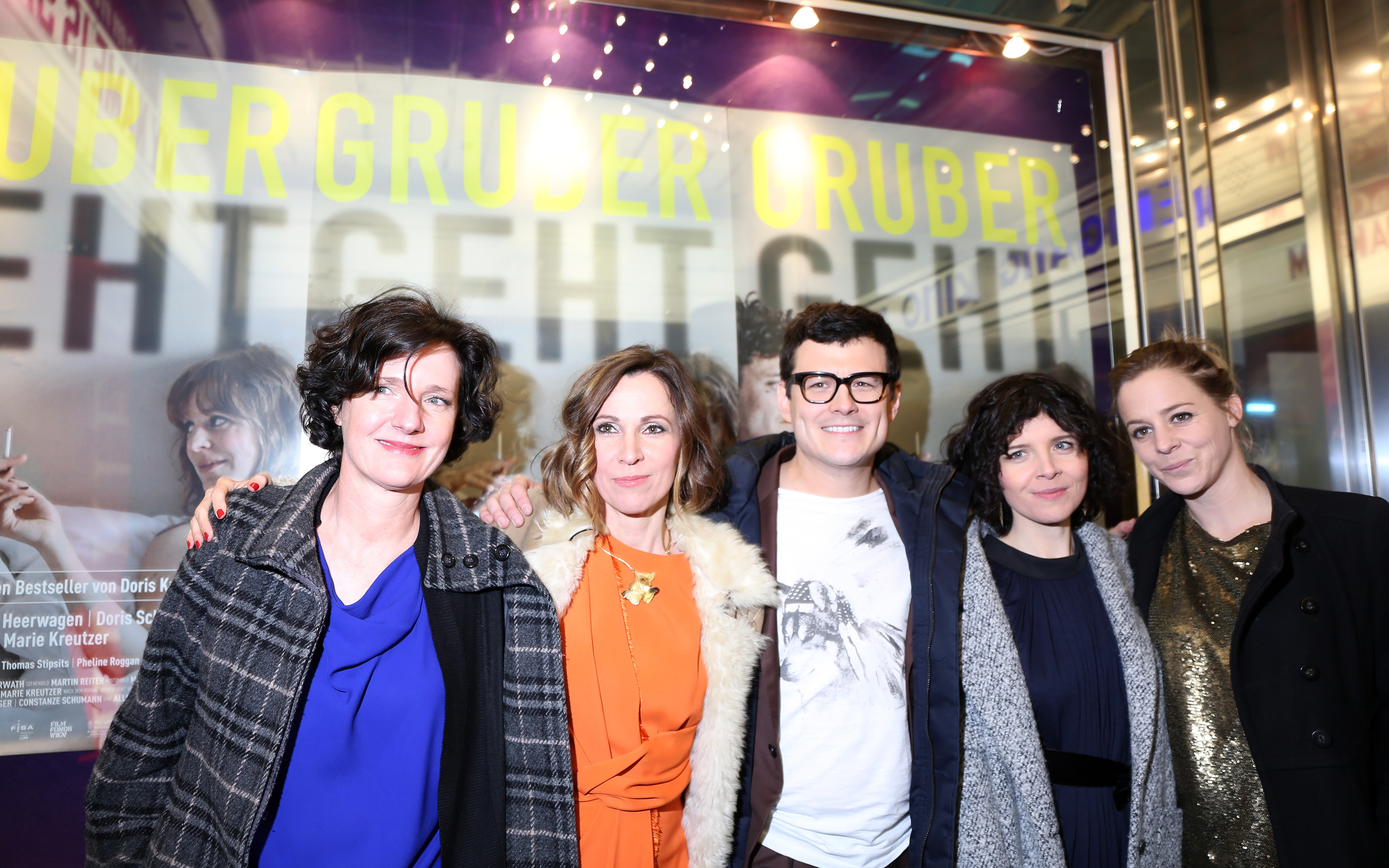 Doris Knecht, Doris Schretzmayer, Manuel Rubey, Marie Kreutzer and Bernadette Heerwagen (l.t.r.) at the premiere of the movie Gruber geht at Gartenbaukino in Vienna, Austria.